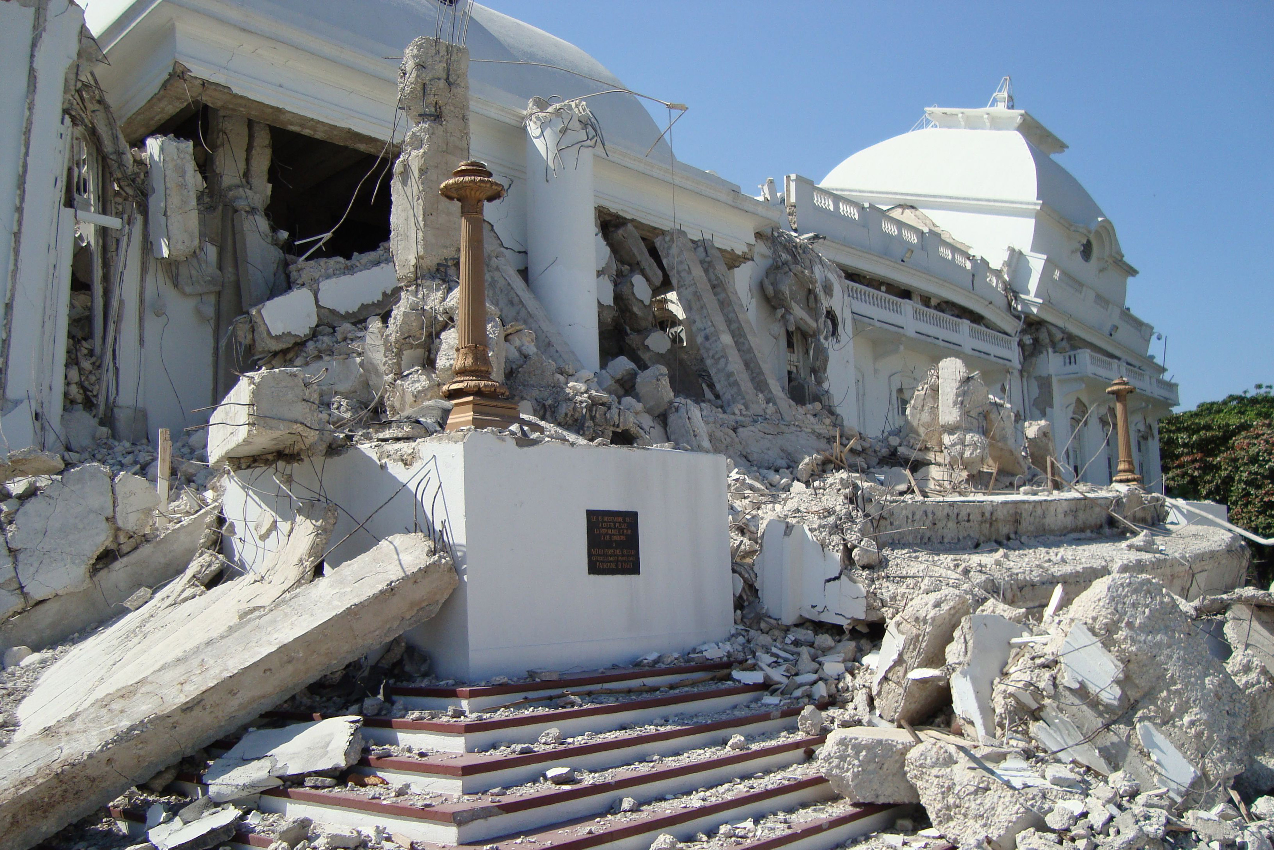 After the earthquake that hit Haiti on 12 January 2010 - Rubbles of the National Palace in Port-au-Prince, HaitiRomână: După cutremurul ce a lovit Haiti pe 12 ianuarie 2010 - Ruinele Palatului Național în Port-au-Prince, Haiti